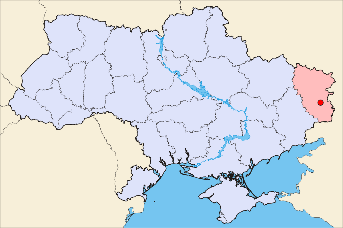 Description = Luhansk geographical position Source = own work, Skluesener Date = 15.01.2006 Author = Skluesener Credits = Colours chosen according to a map of steschke